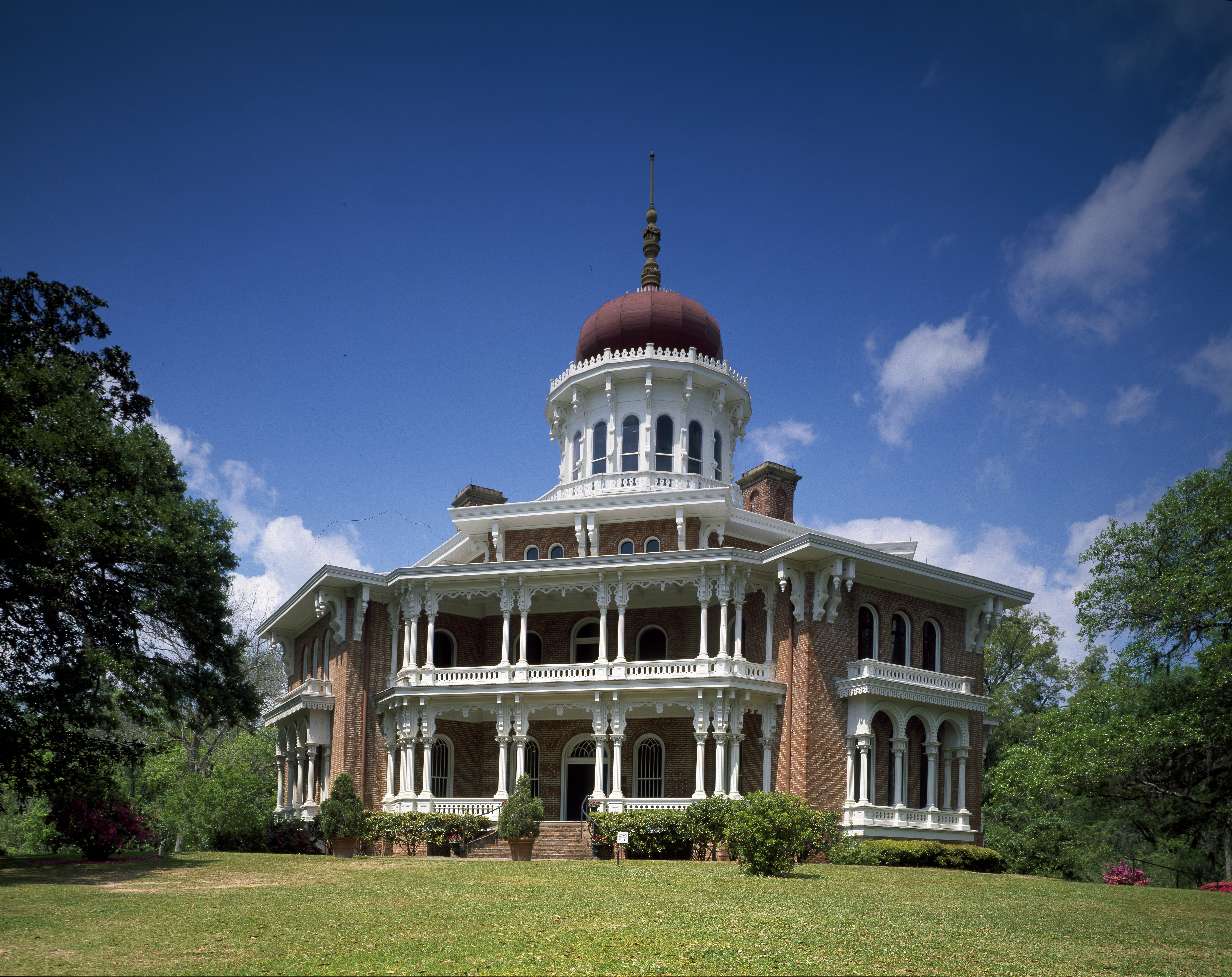 Longwood, the largest standing octagonal house in America. Natchez, Mississippi.